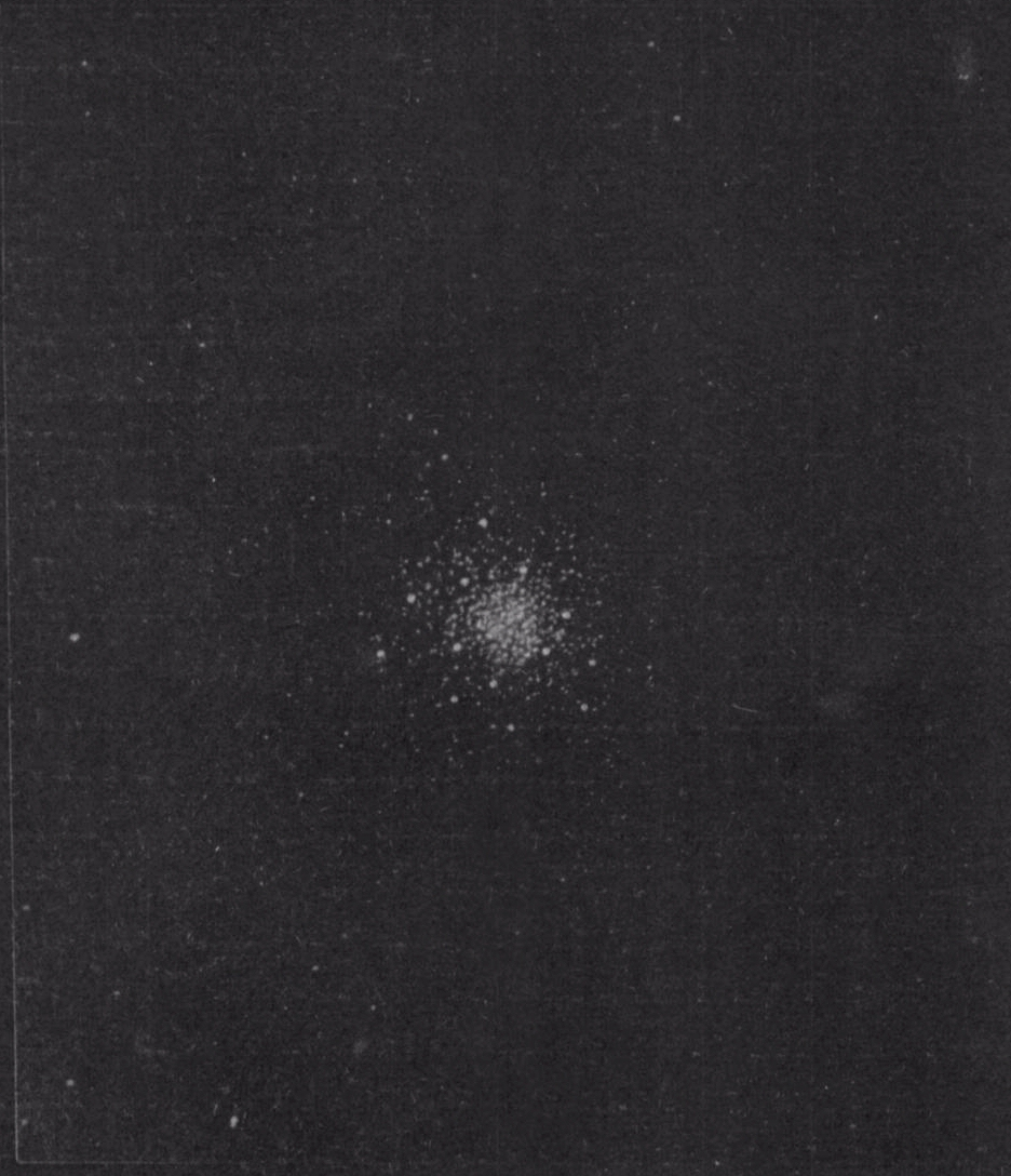 This is a diagram of M13, produced after photographs taken by Holden and Campbel in 1890 and 1891 at the Lick Observatory.